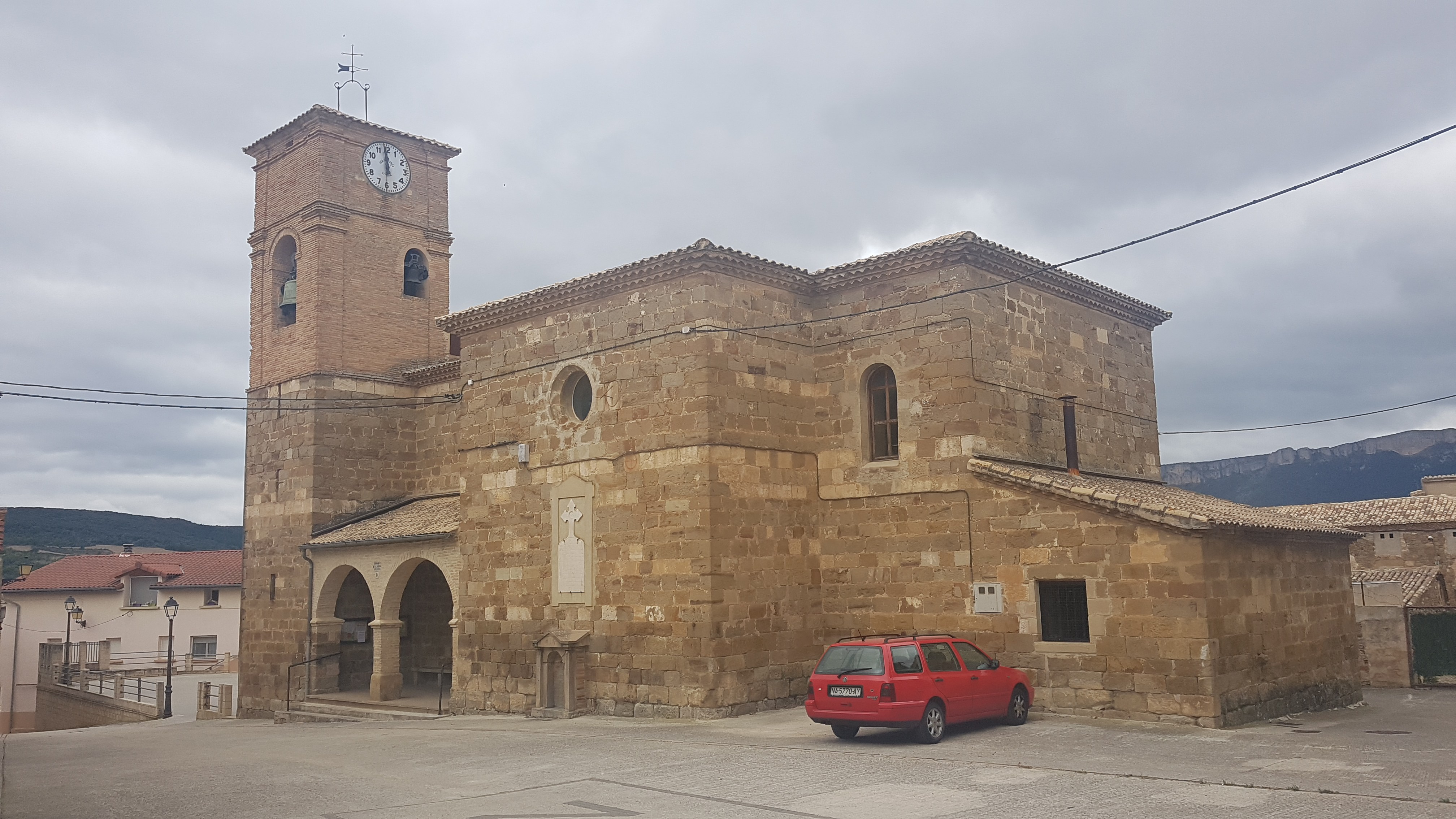 Church of Saint Michael of Zufia